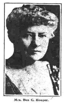 Jessie Annette Jack Hooper (November 9, 1865 – May 7, 1935) was an American peace activist and suffragist. Identified in this newspaper photo by her husband's name, Mrs. Ben C Hooper.